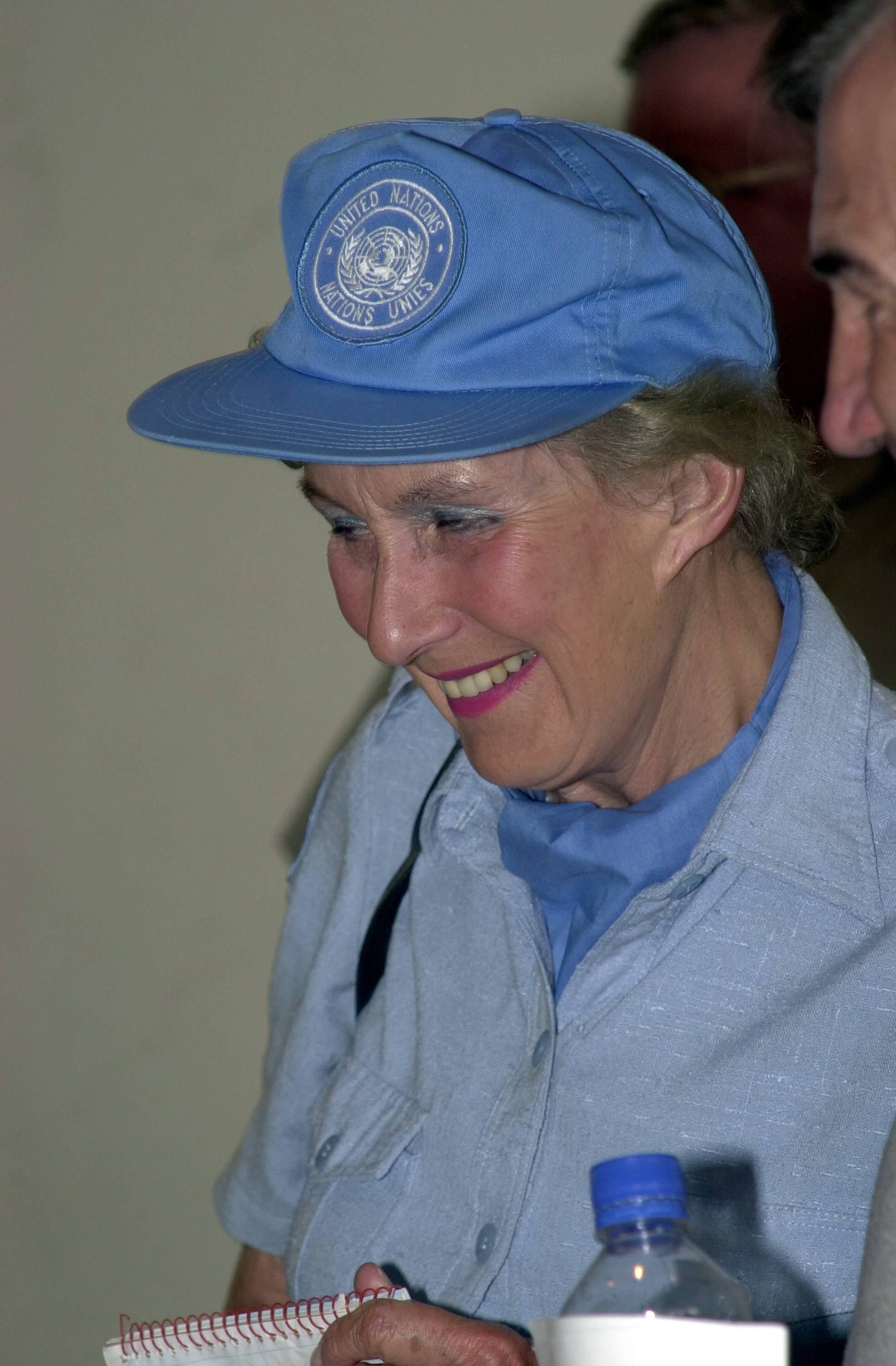 Dame Margaret Anstee, Special Representative of the United Nations for Peace Keeping Operations North-2000, smiles at the cameras during a mock press conference at the Honduran Military Academy in Tegucigalpa, Honduras.